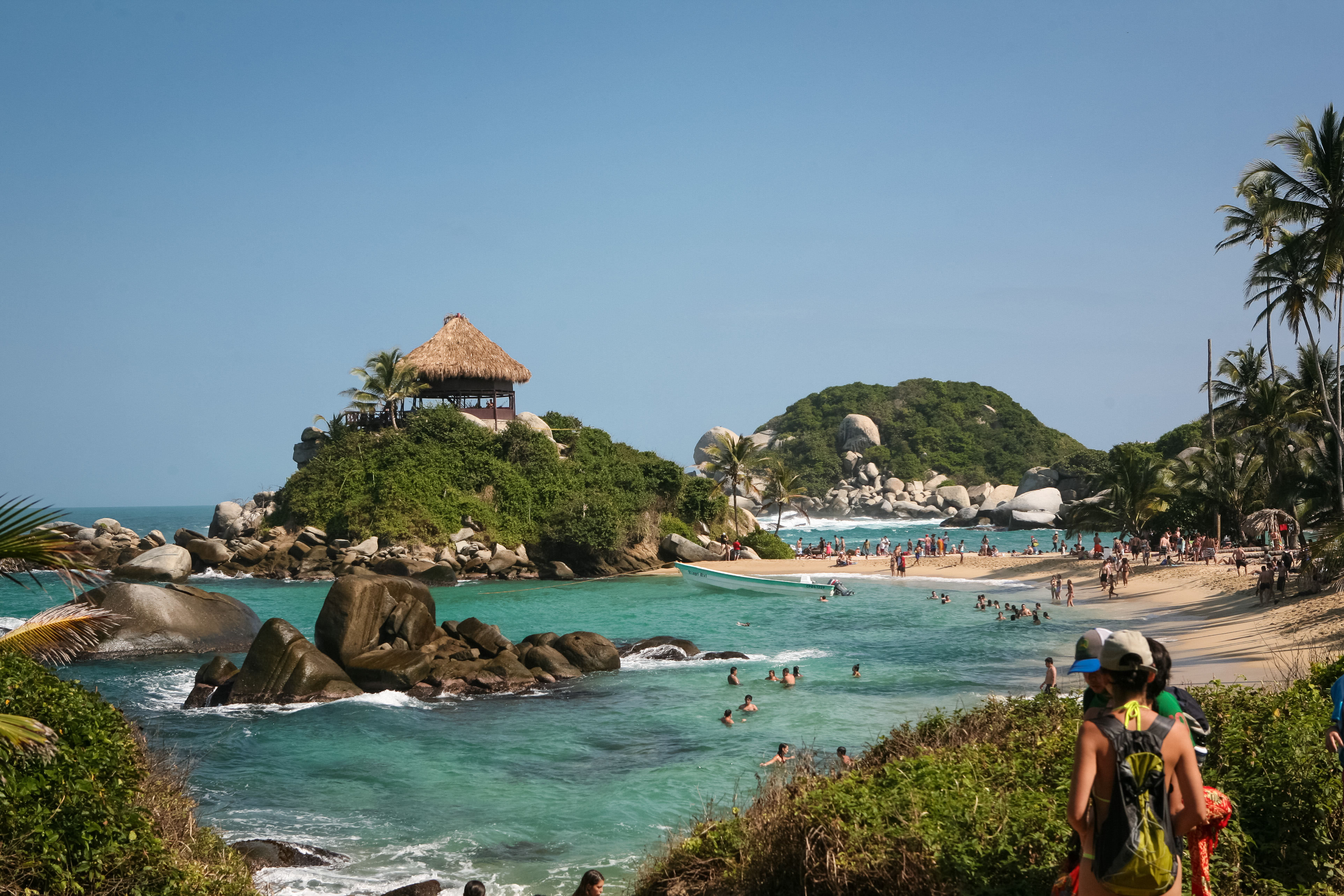 Cabo San Juan beach in Tayrona National Parque, Colombia